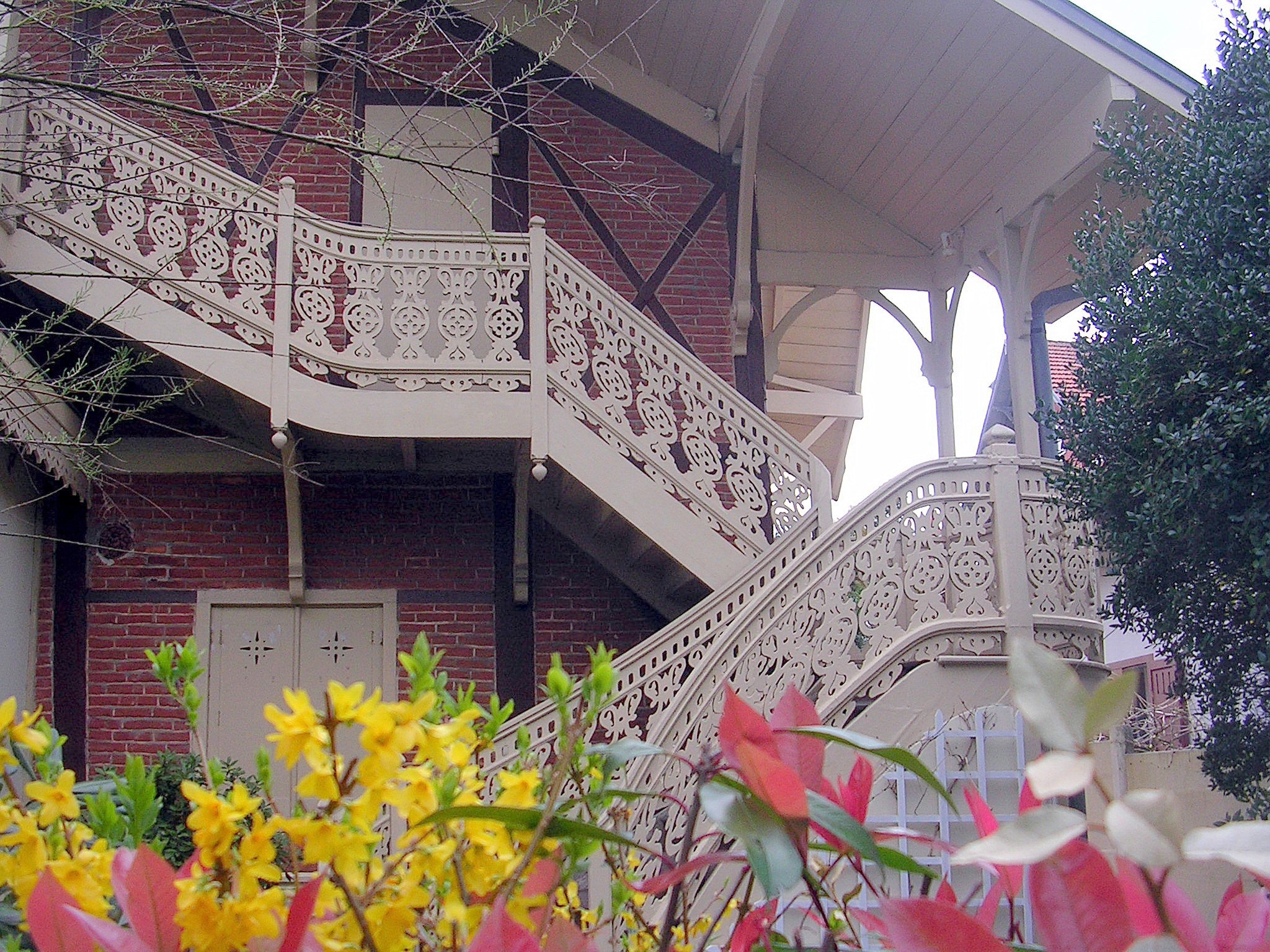 Mansion Toledo in Arcachon